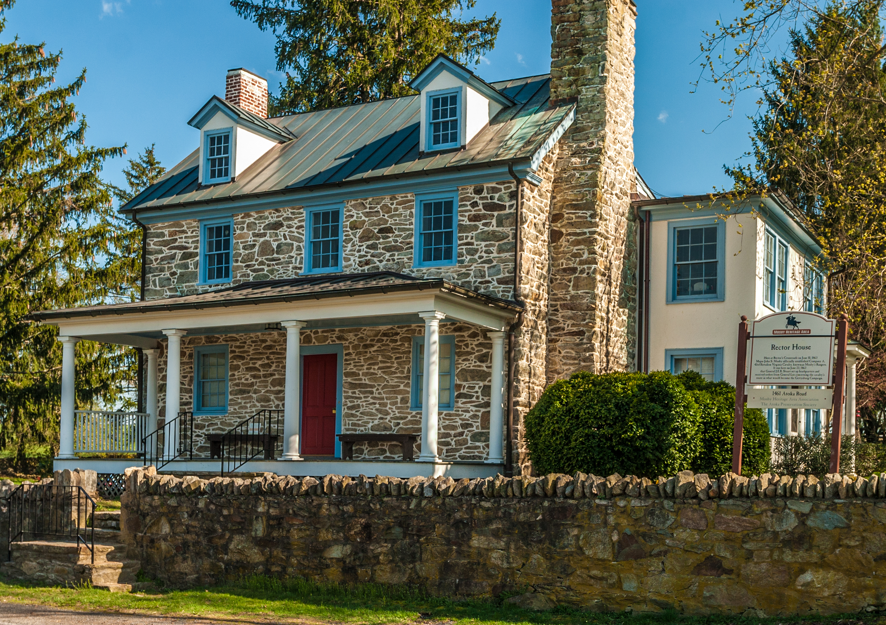 Rector House at 1461 Atoka Road, part of the Atoka Historic District, Virginia